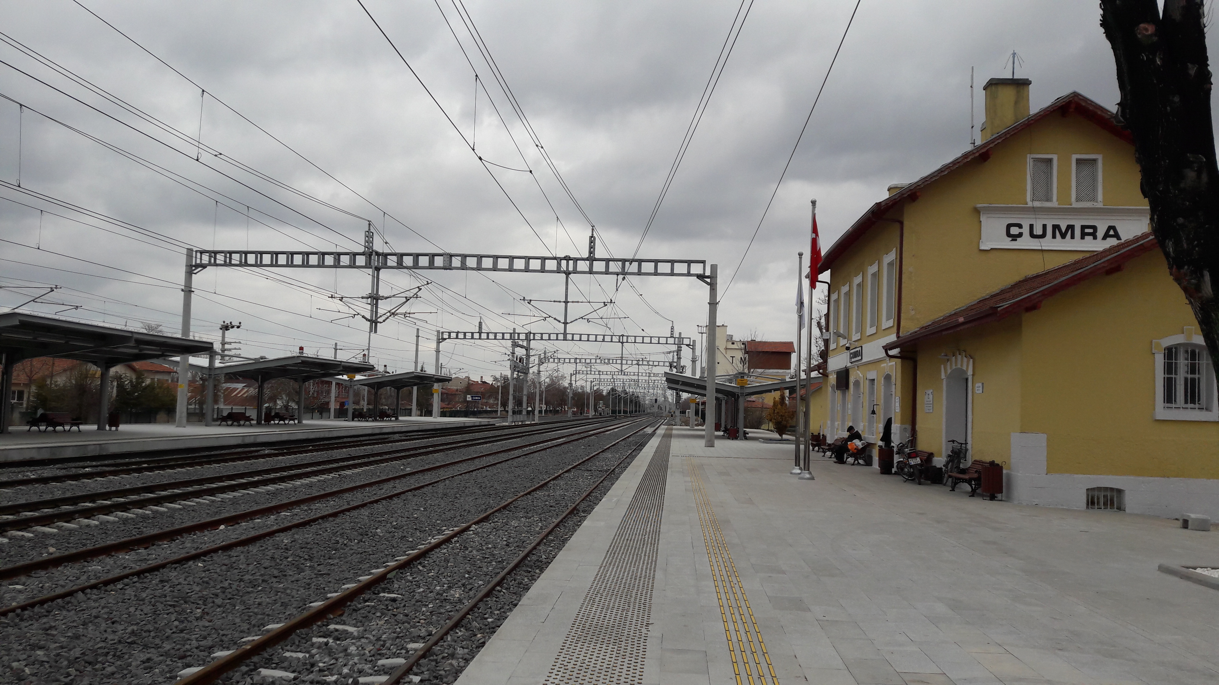 Cumra railway station, looking east. (toward Karaman)